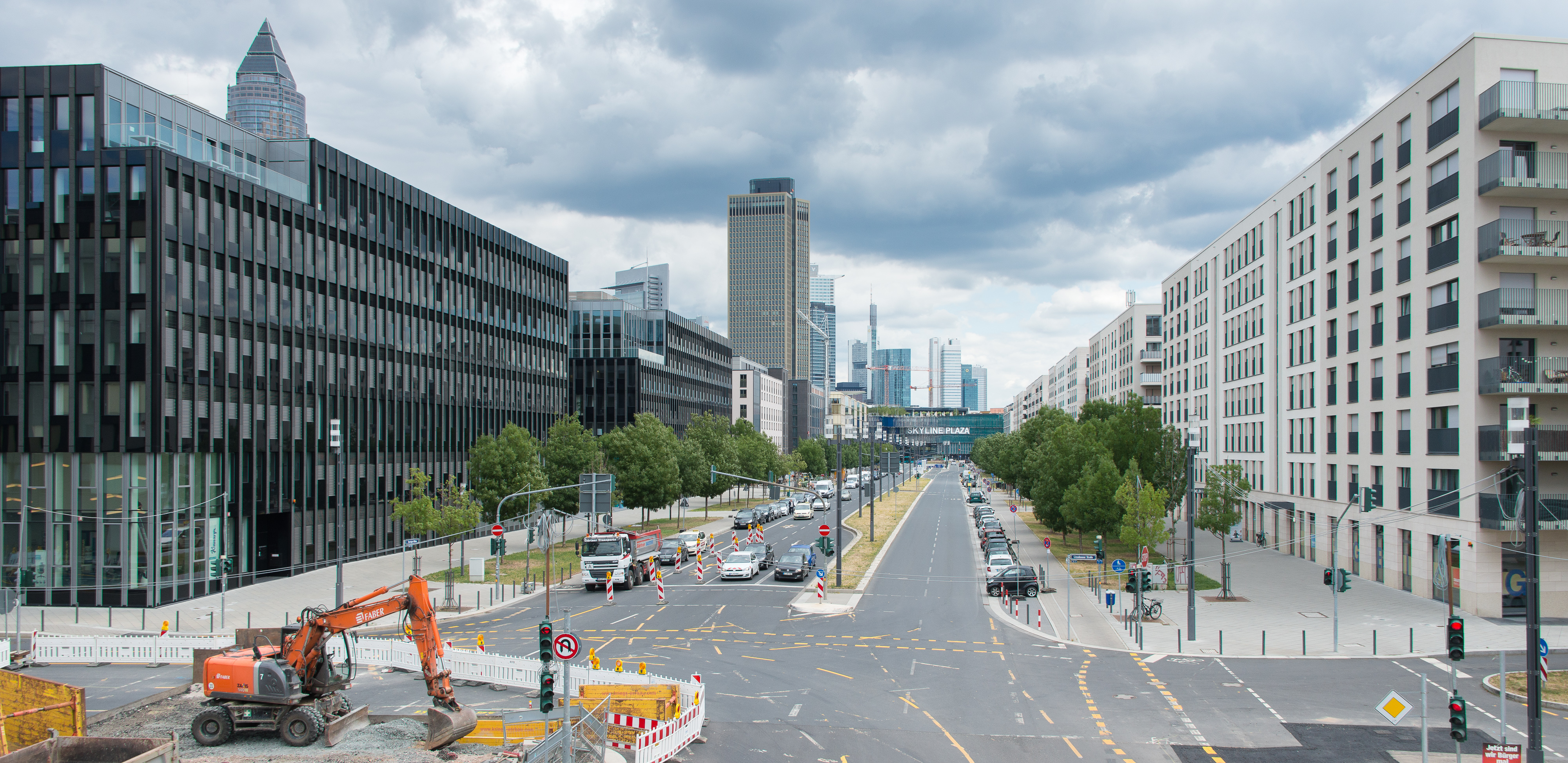 Eastern part of the Europa-Allee in the Europaviertel in Frankfurt am Main. View from the Emser Bridge to the East (July 2015).